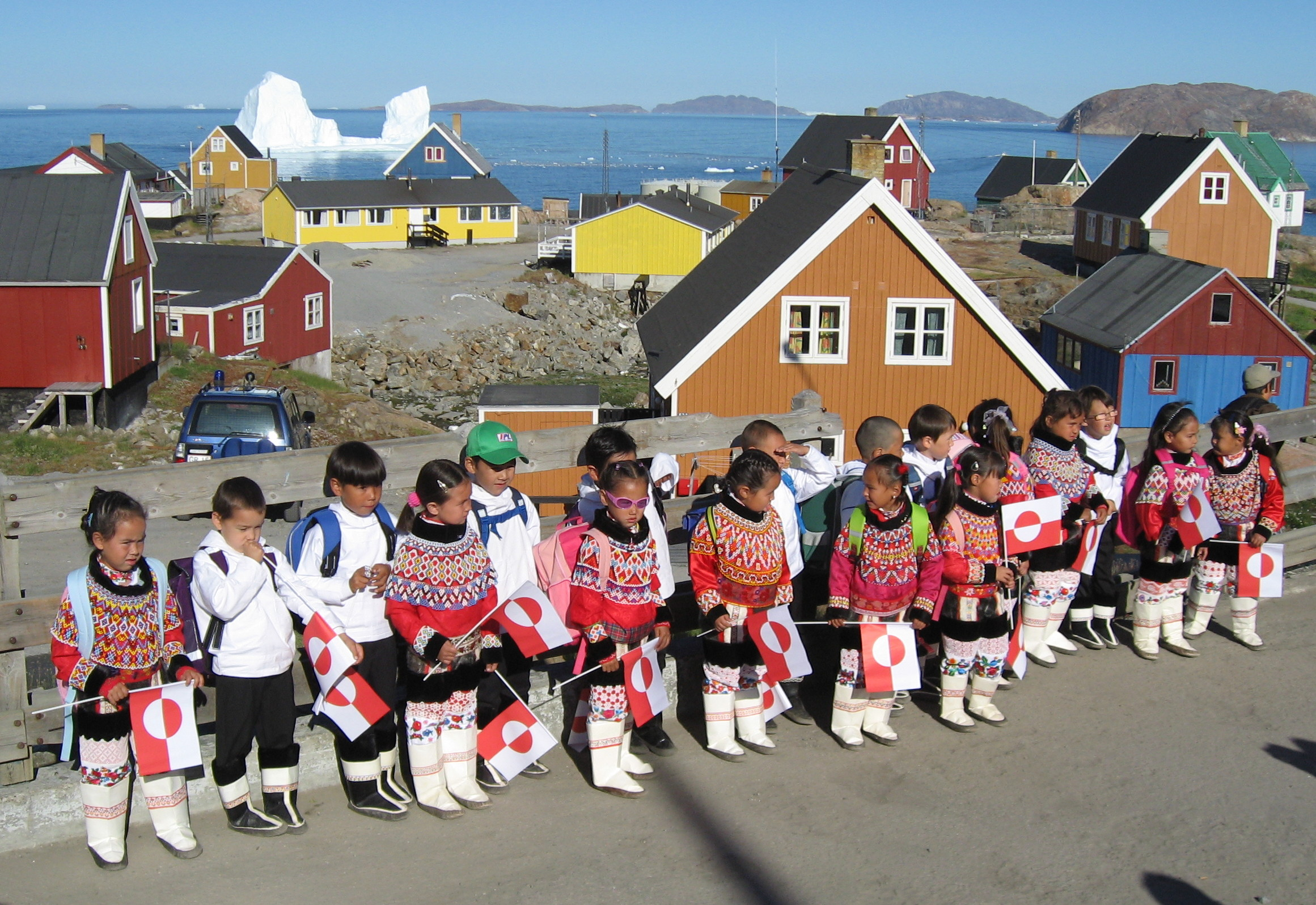 First day in school for the new pupils in first grade at the Prinsesse Margrethe School in Upernavik, Greenland. All pupils are wearing the national costume of Greenland on this special day.